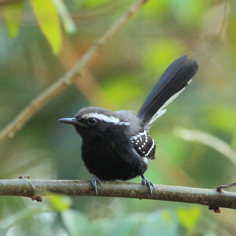 Black-bellied Antwren (male) at Dourado - SP - Brasil